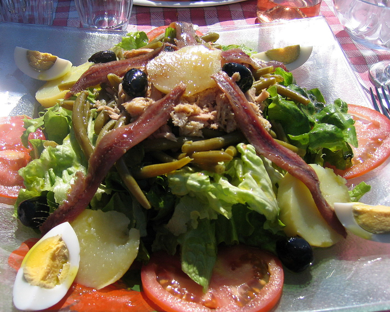 Salade Niçoise